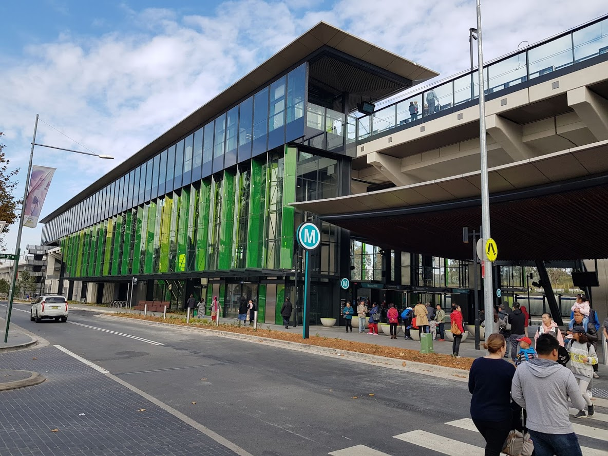 Rouse hill railway station